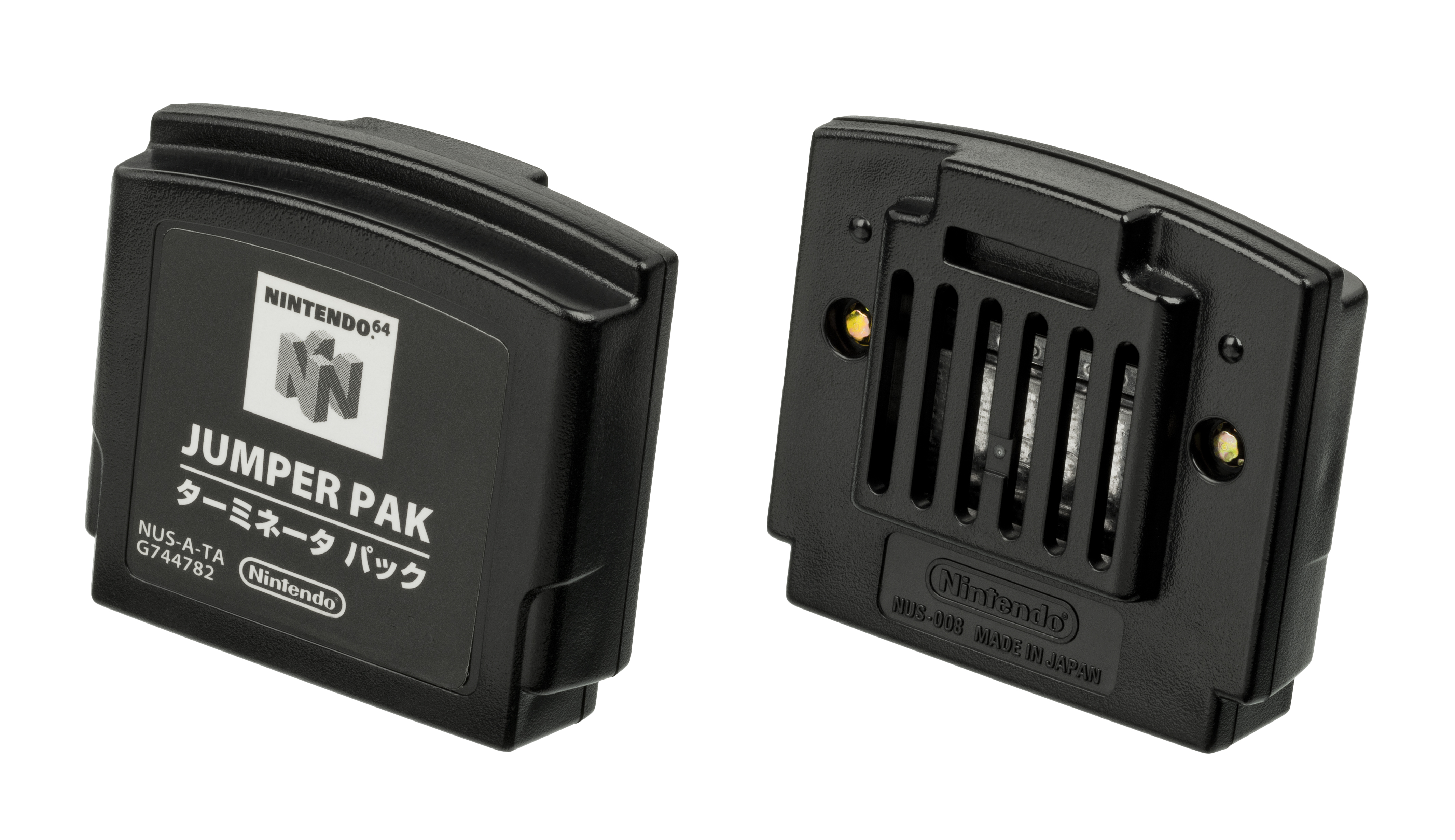 The Jumper Pak for the Nintendo 64 video gaming console. Located under a small hatch on the top of the N64 system, this Jumper Pak was installed in all N64 consoles. It merely served as a placeholder for the optional 4MB Expansion Pak.